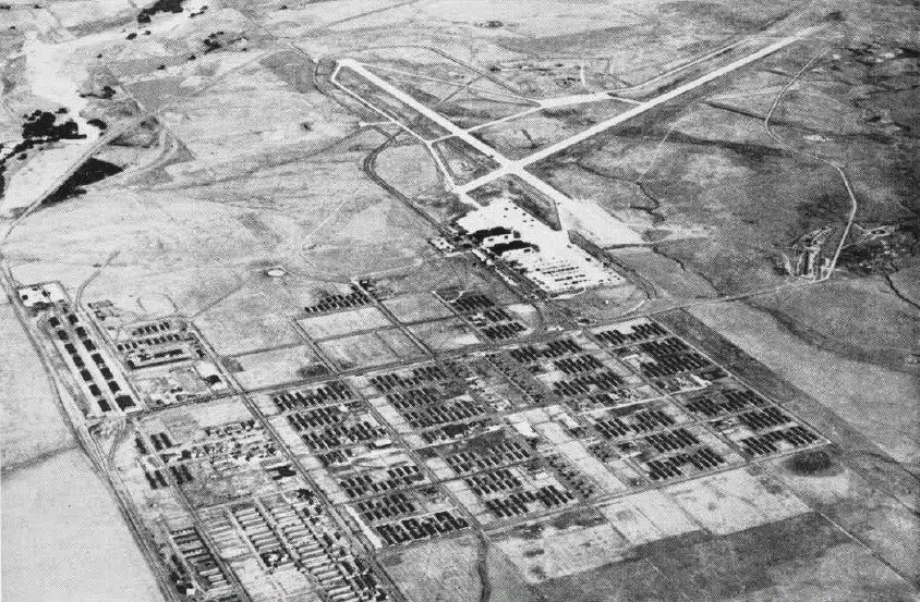 Aerial view of the U.S. Naval Air Station Denver, Colorado (USA), in the 1940s.